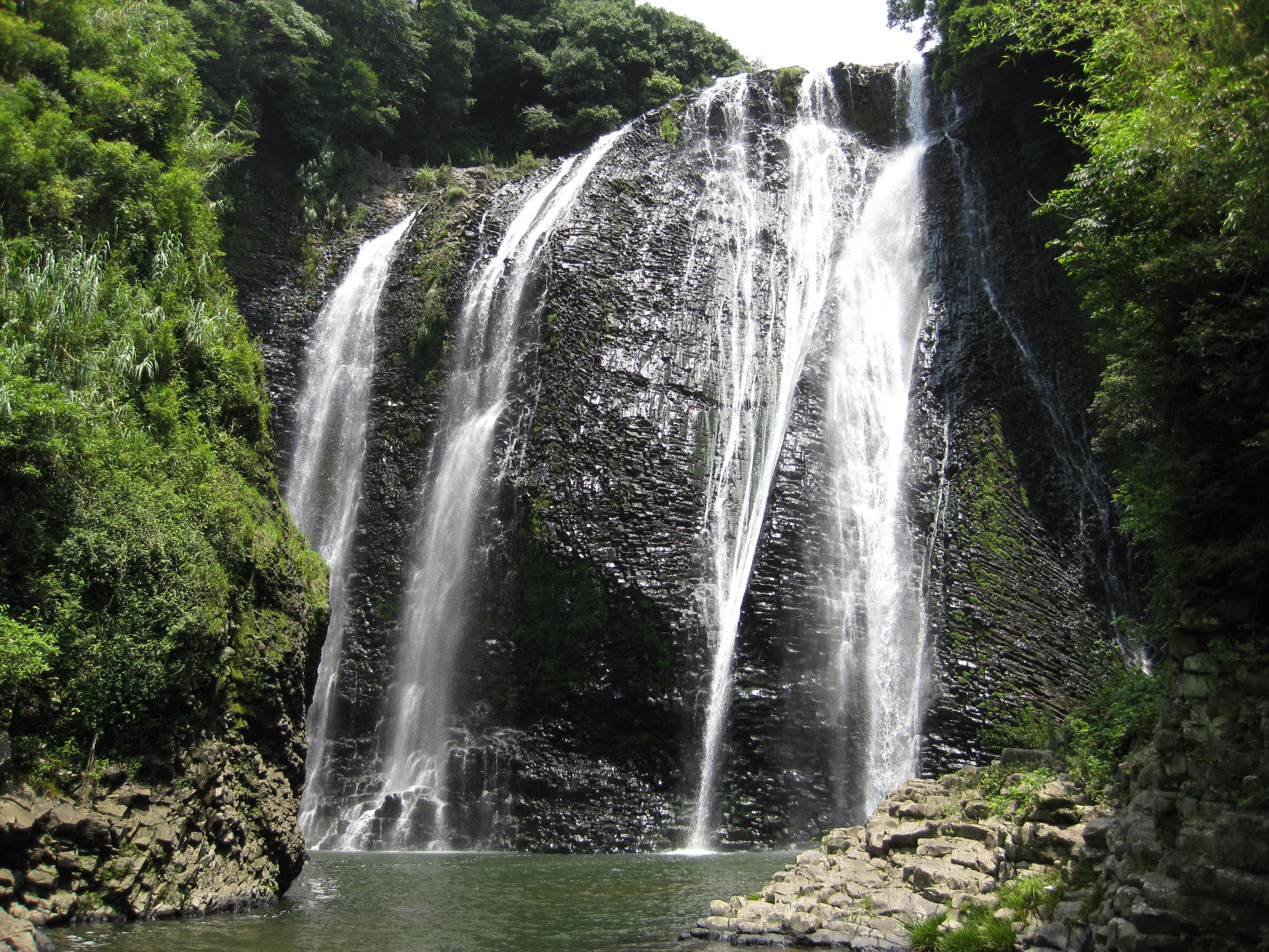 Ryūmondaki Falls in Kagoshima, Japan